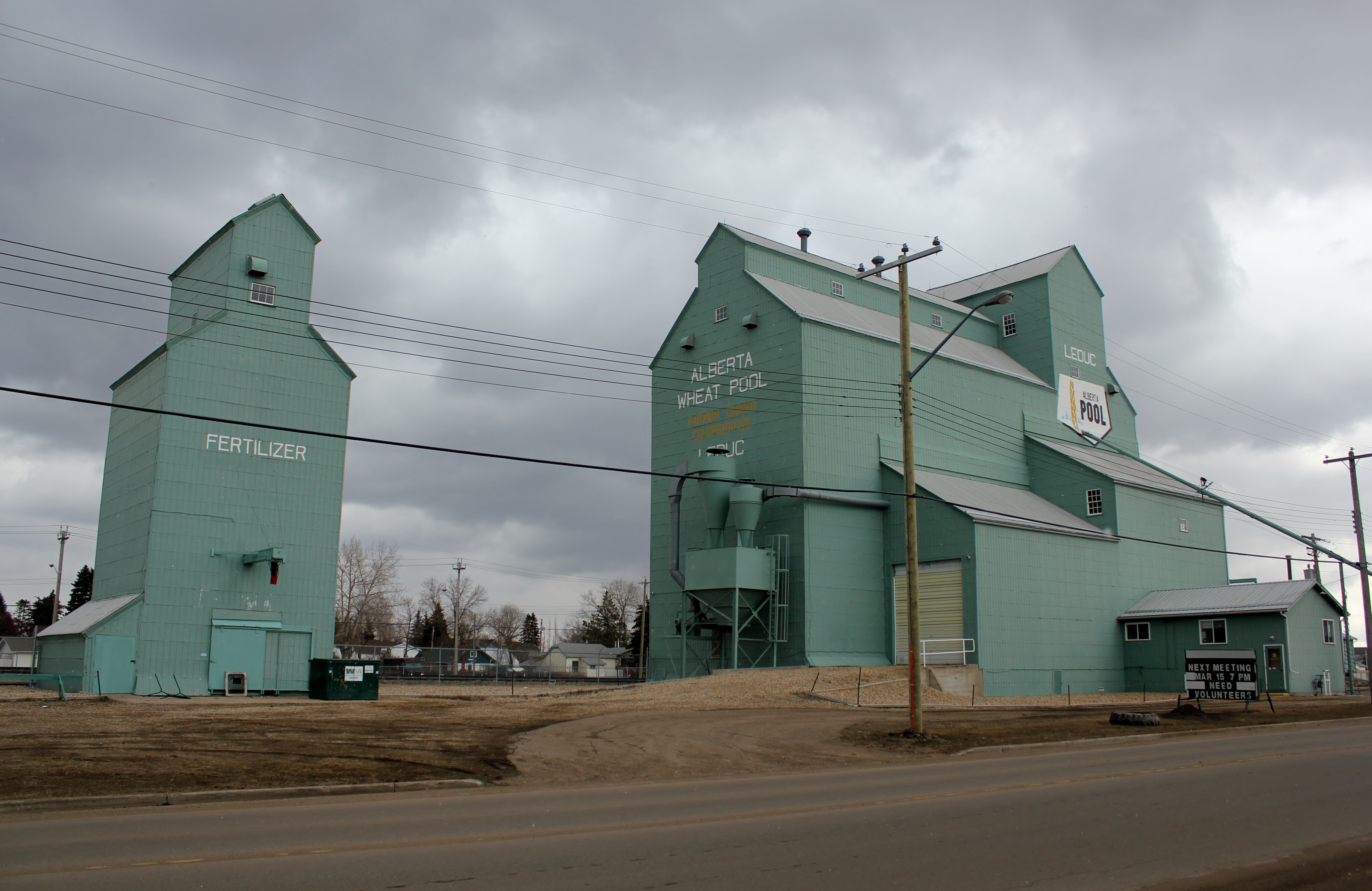 Alberta Wheat Pool Grain Elevator Site Complex